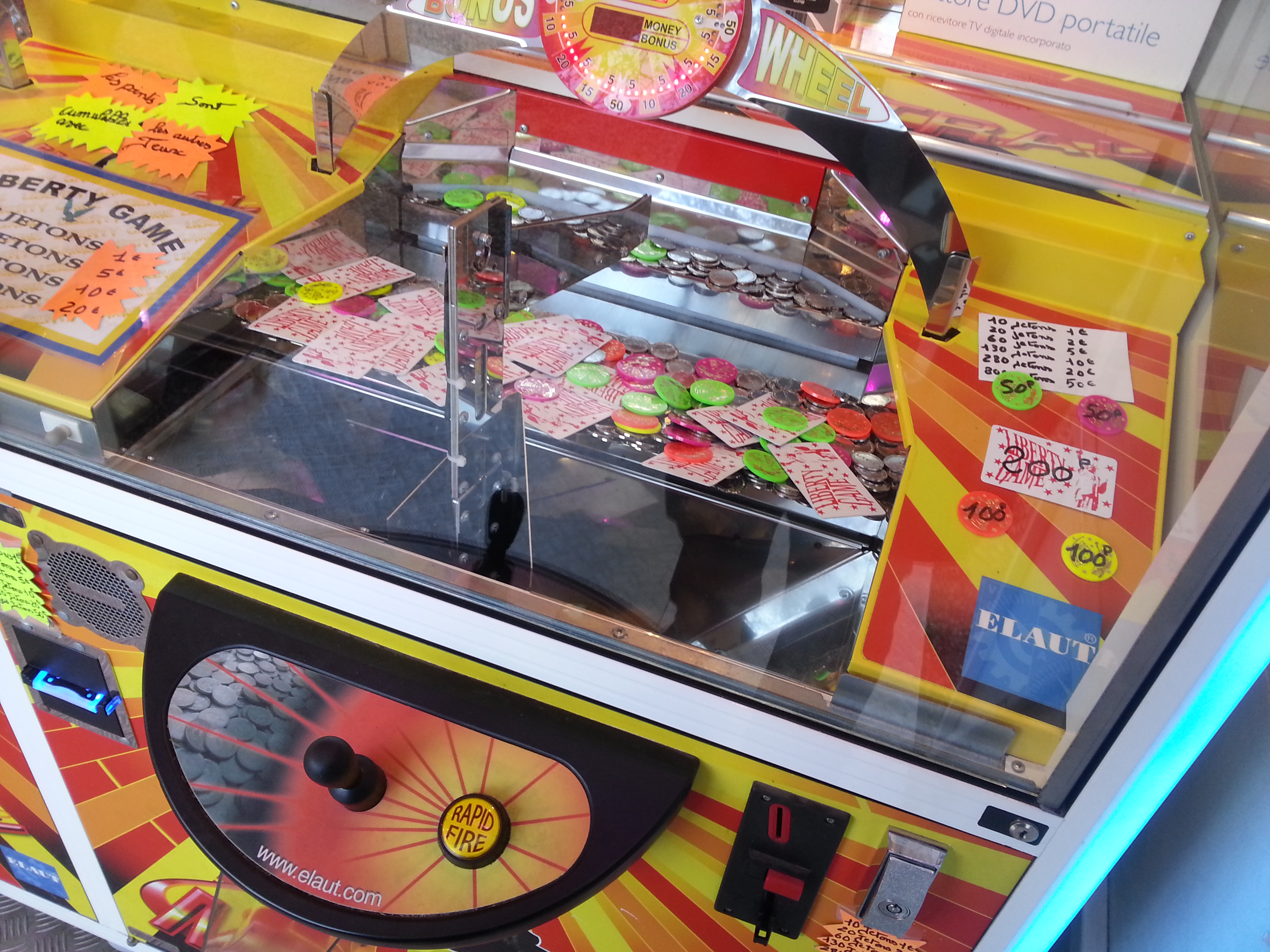 Plateau de pousse pièces - Foire aux plaisirs des Quinconces - Bordeaux, Mars 2014